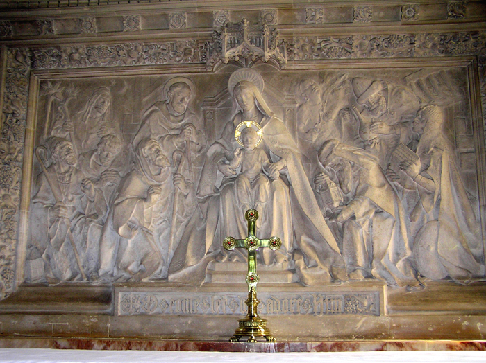 Reredos behind the High Altar in the Parish Church of St. Mary the Virgin, Gillingham, Dorset